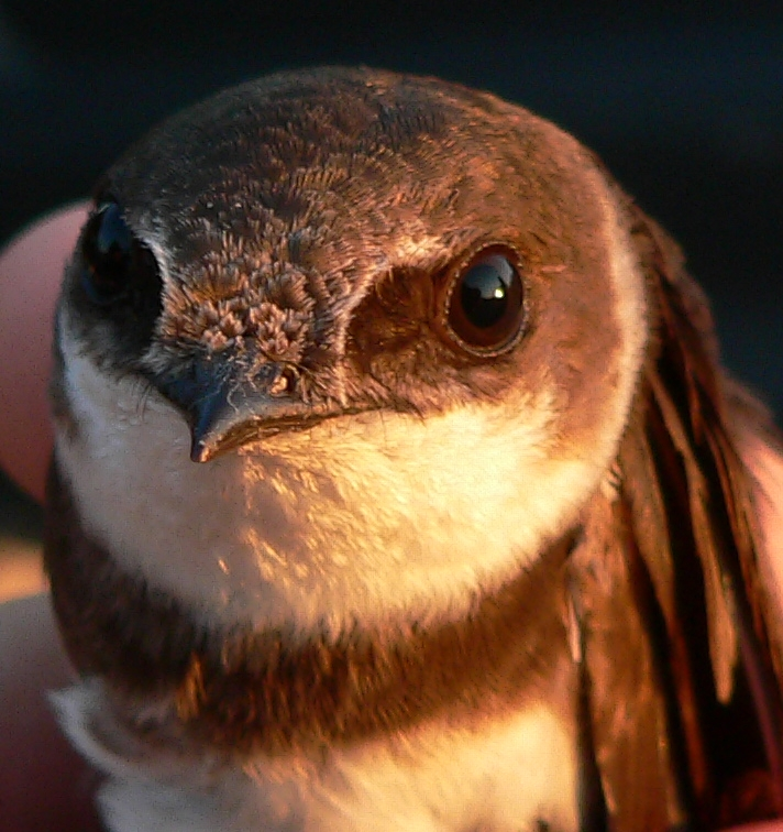 Sand martin (Riparia riparia), head; Kauhava, western Finland